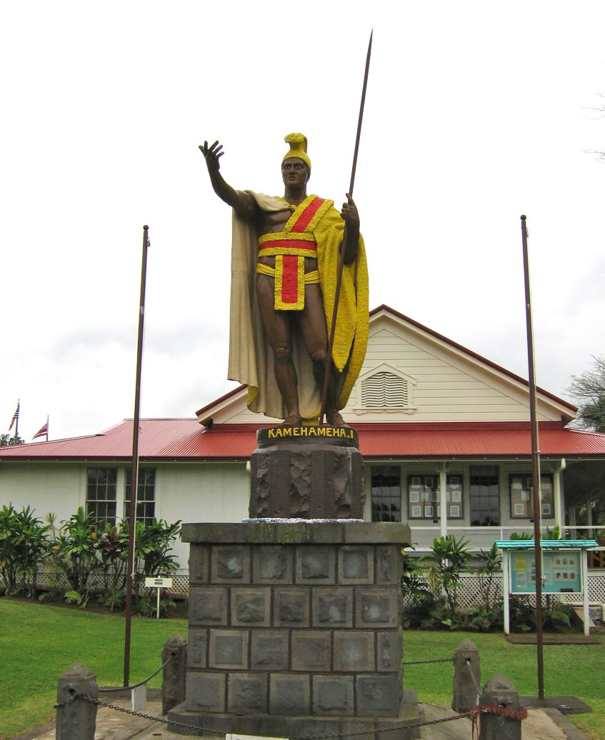 The original statue of King Kamehameha I, in Kapaʻau, North Kohala. Sculptor: Thomas Ridgeway Gould Photo by Karl Magnacca.